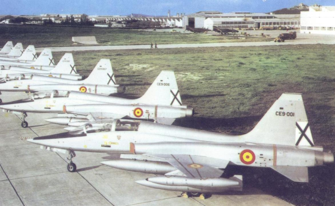 Airplanes in the airport of Getafe, Getafe, Madrid (Spain). Author: Miguel303xm Date: May 12th, 2005 Place: Airport of Getafe, Getafe, Madrid, Spain